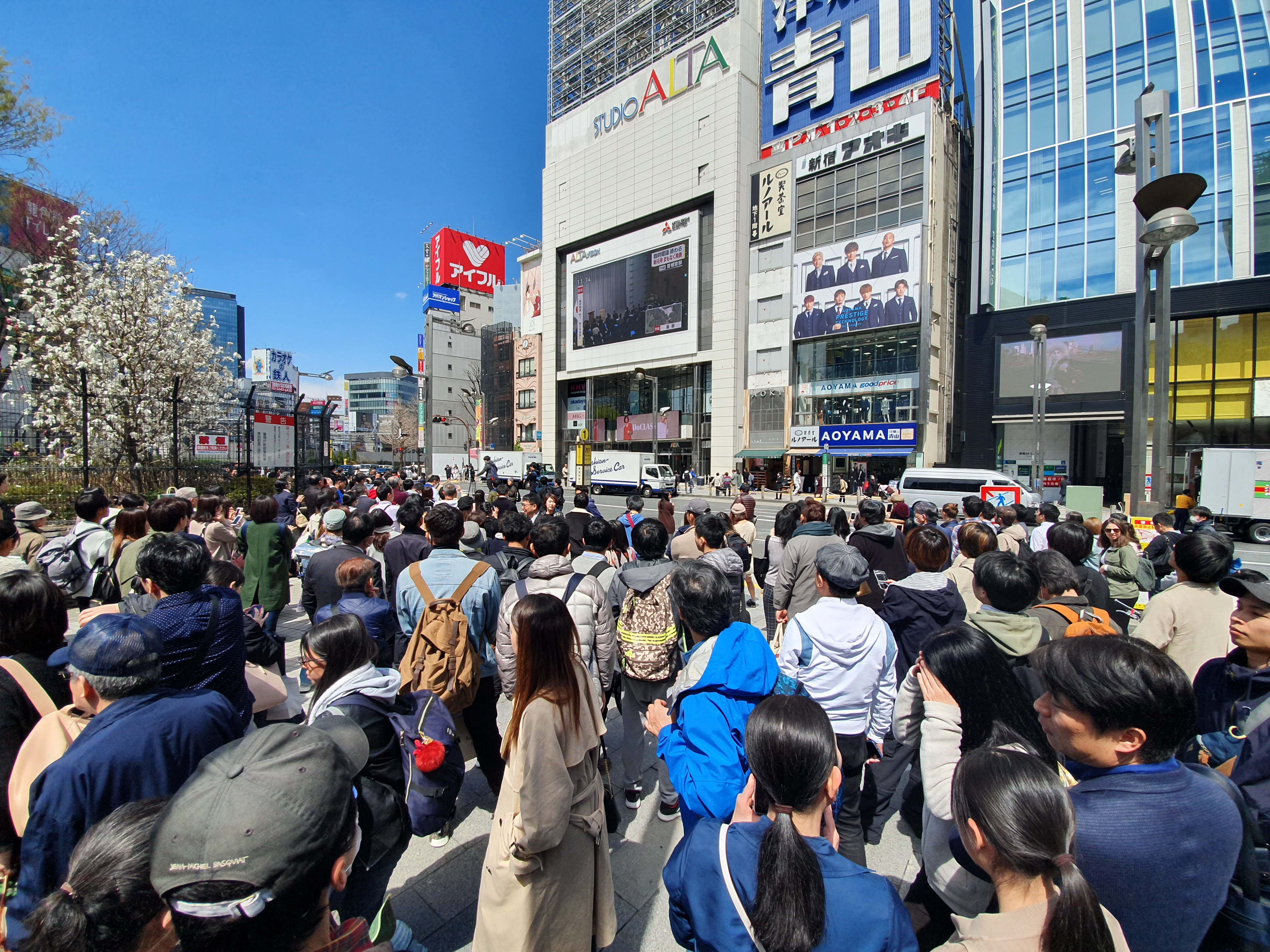 Passers-by in Shinjuku (east exit of the railway station) watch the lead-up to the announcement of Japan's new era period on a giant television screen. Minutes after, it was announced that the new era will be named "Reiwa" (令和)